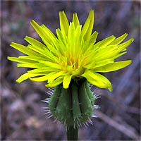 Urospermum picroides — Prickly goldenfleece. Invasive plant species from Eurasia. On the Canyon View Trail, at Circle X Ranch Park — in the Santa Monica Mountains National Recreation Area, California. NPS photo, no copyright.